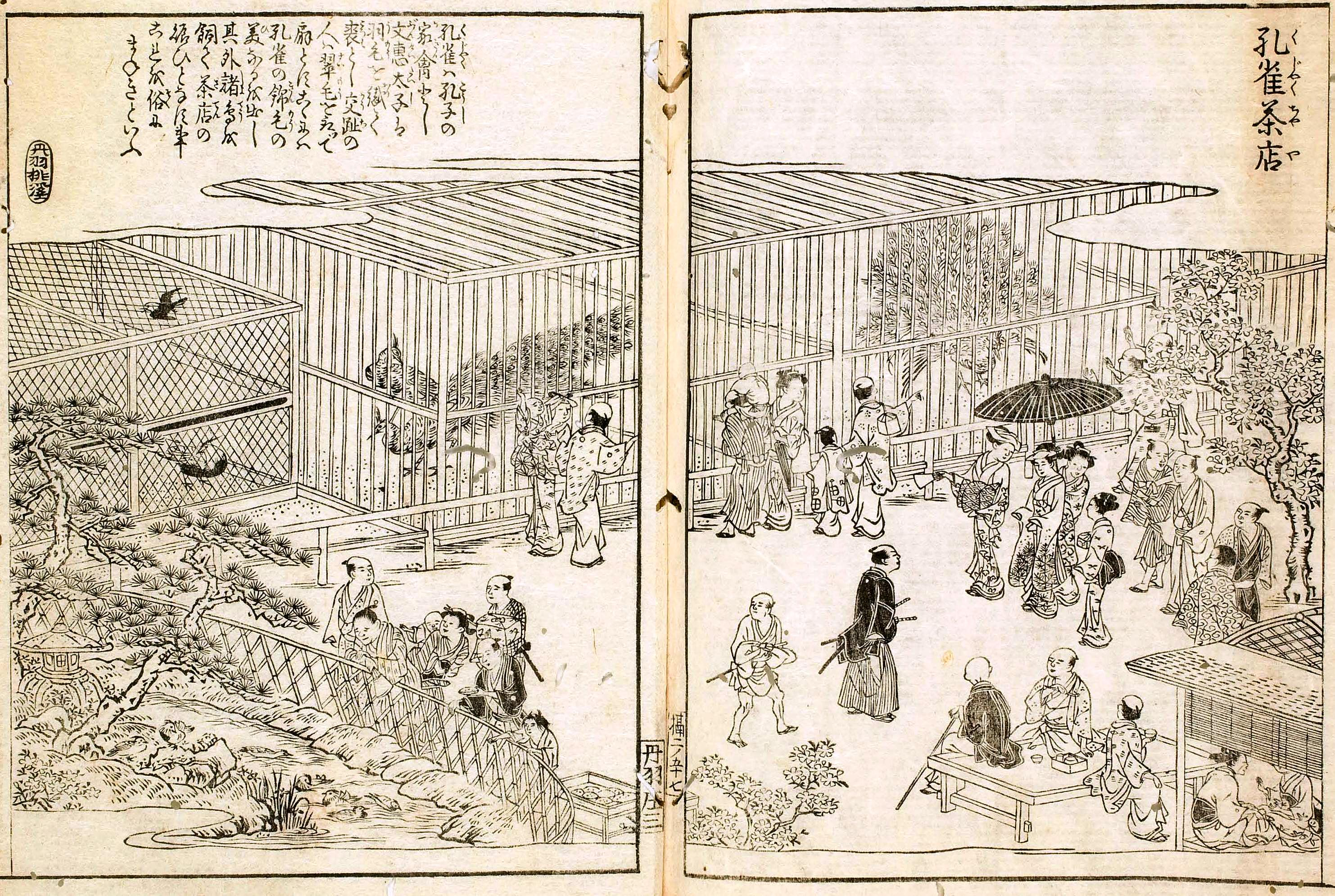 摂津名所図会「孔雀茶屋」 Peacook Tea House